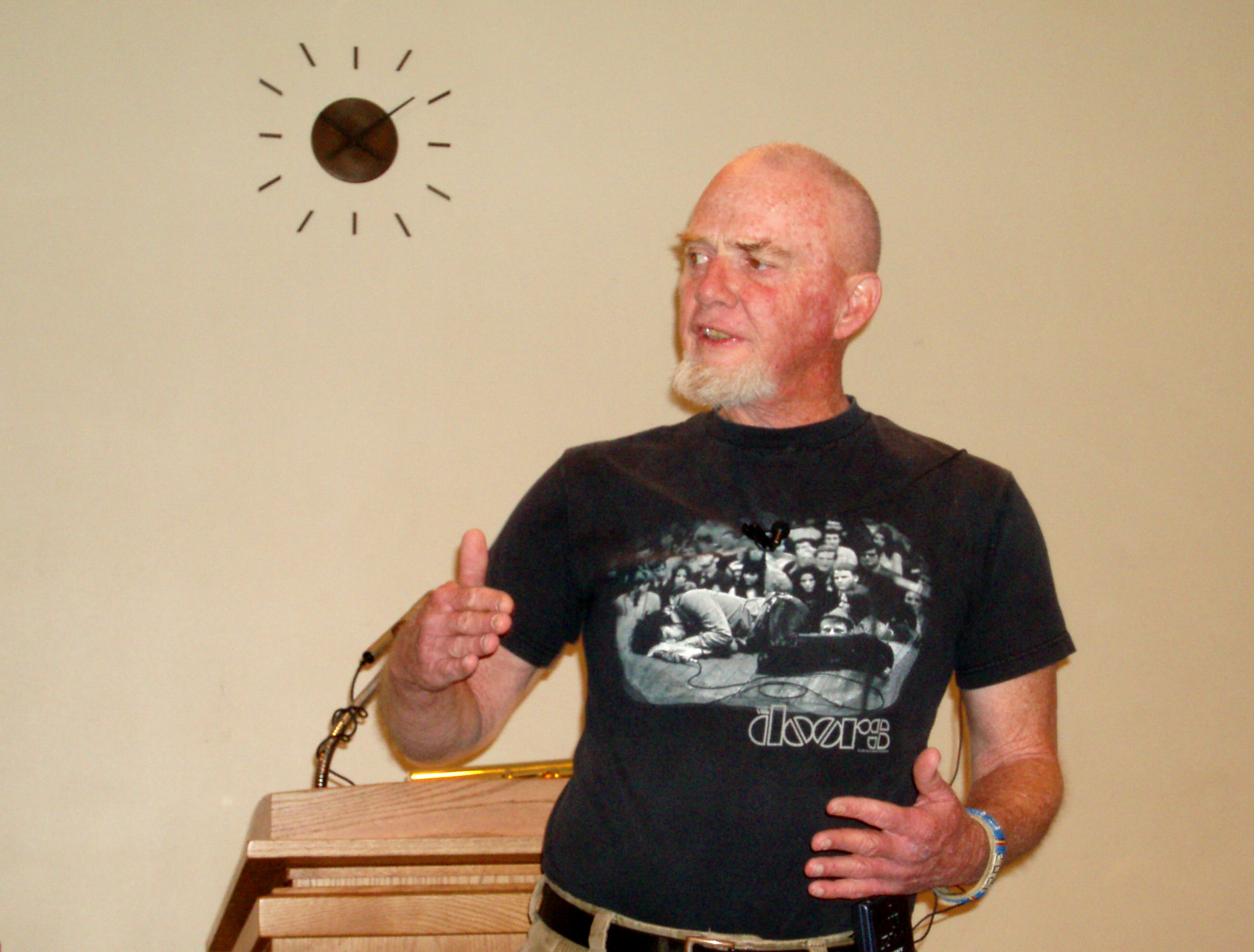 Author of Dances with wolves